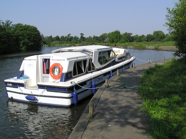 Church staithe, Horning. The church here (197245) provides a small staithe with room for 3 or 4 boats (depending whether they are as large as this one!) and a path to the church. In the distance is a small, round, thatched summer house - probably belonging to the same place as 197247.